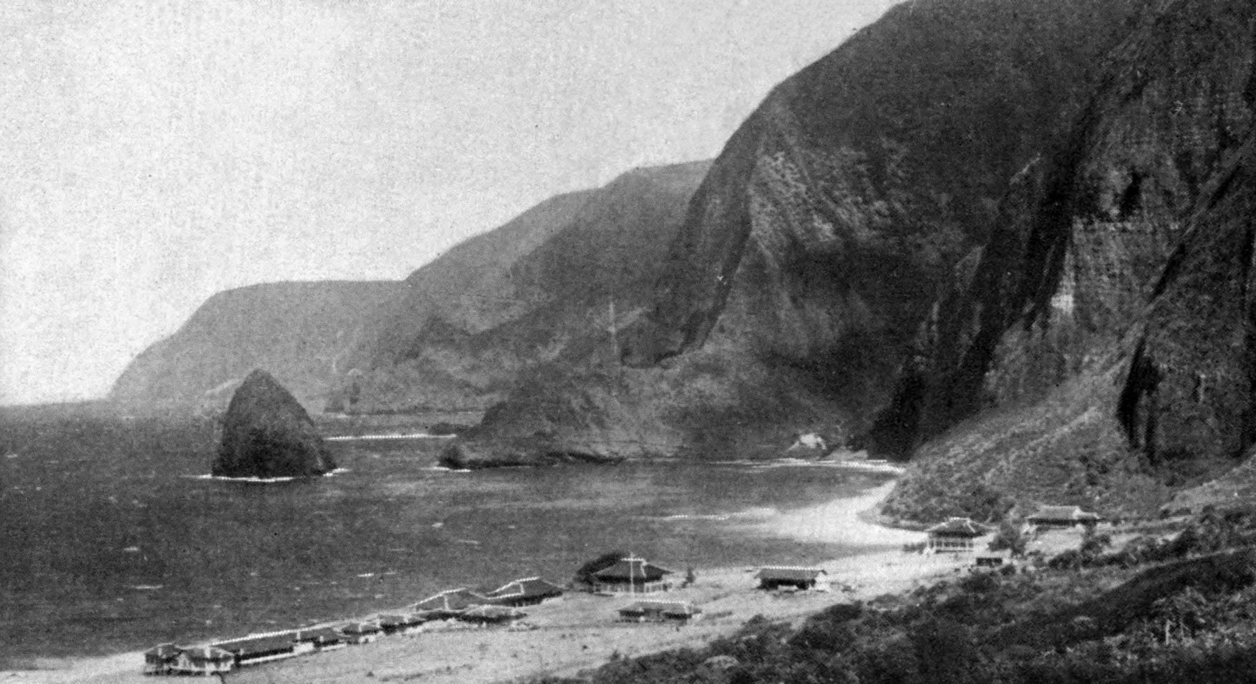 Molokai coast with a view of the federal leprosarium at Kalawao, at the mouth of Waikolu valley, with Okala Island in the background.